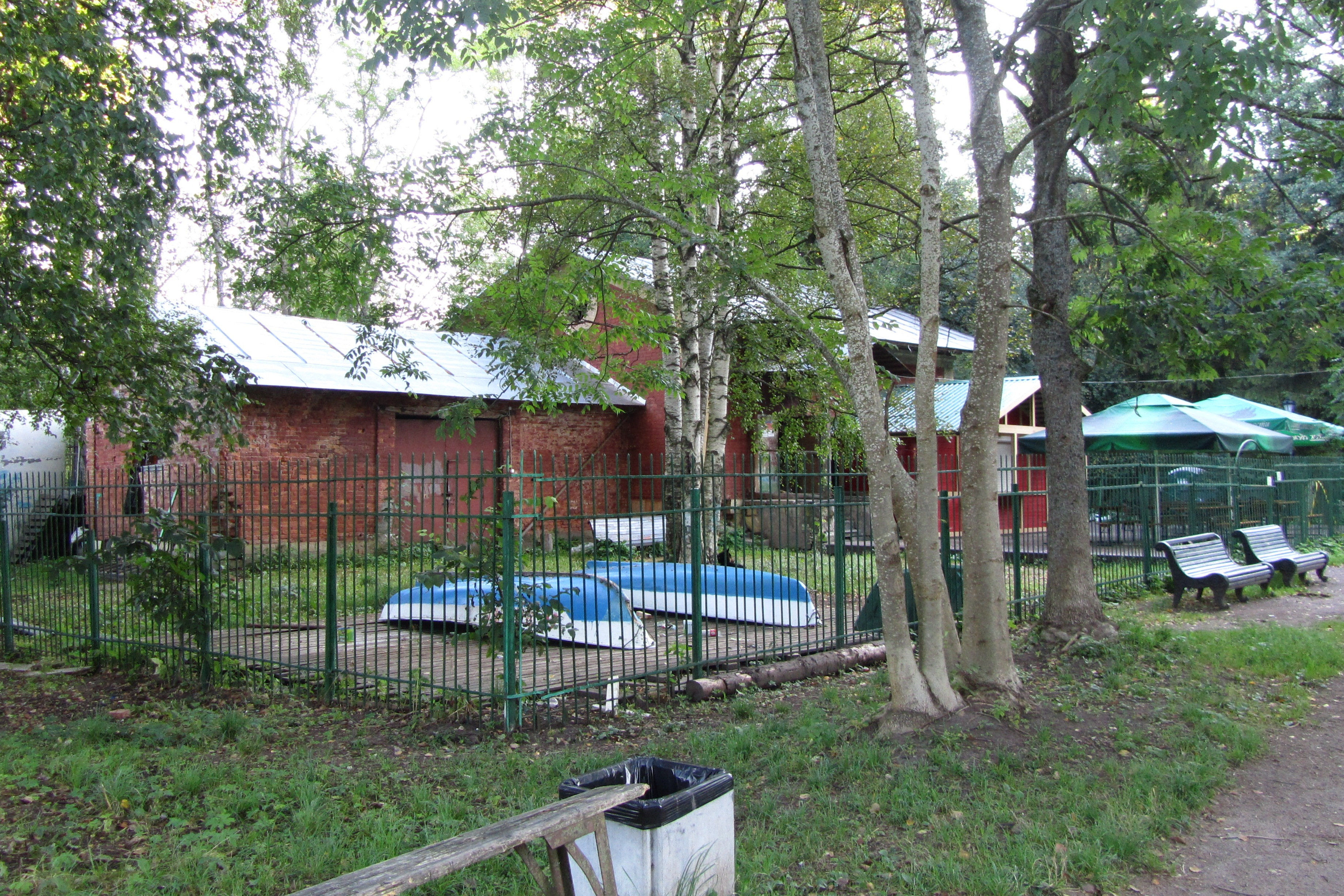 Guardhouse No 8 by the Big Iron Gate, Gatchina, Russia